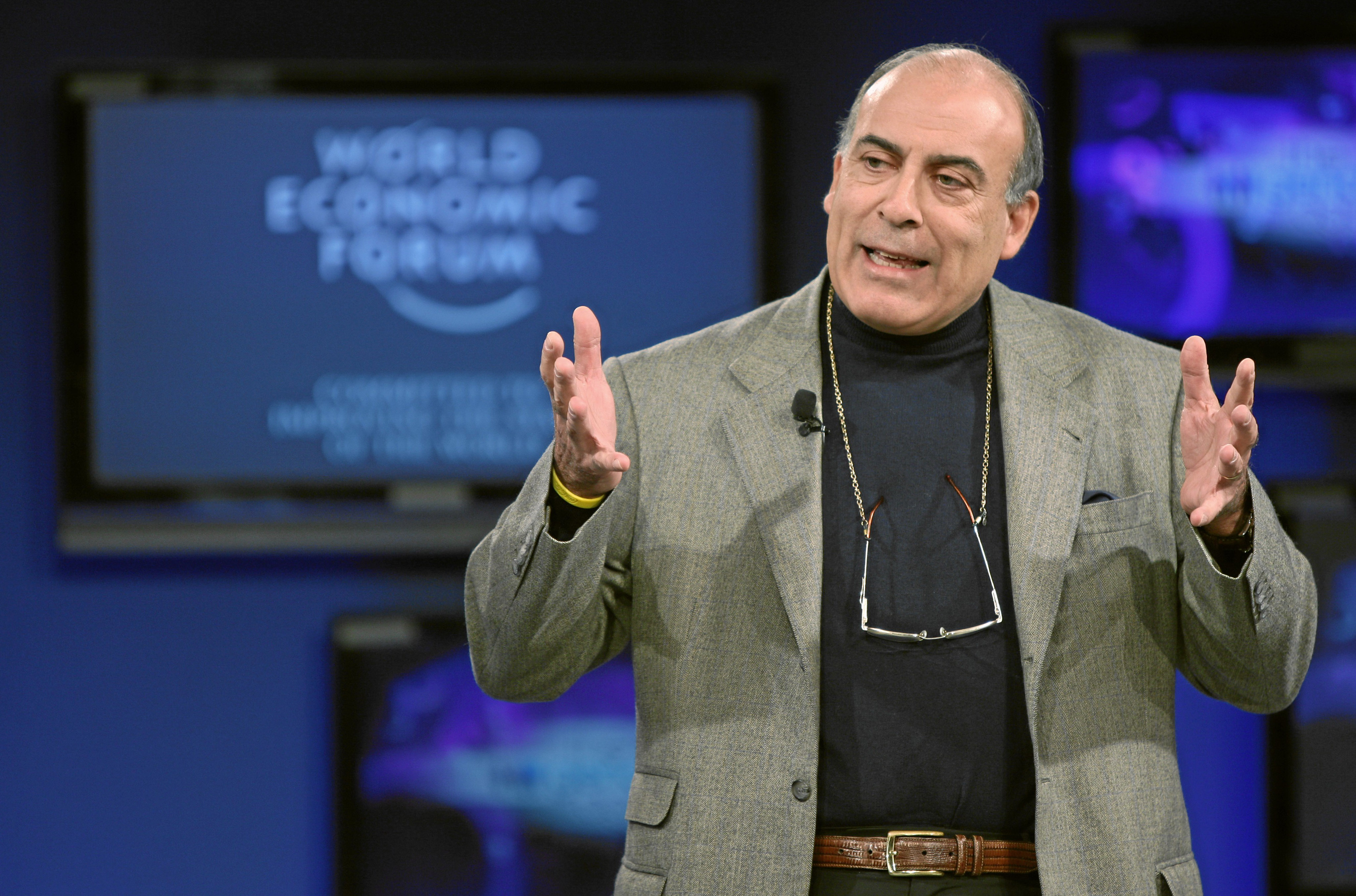 Muhtar A. Kent, Chairman of the Board and Chief Executive Officer, The Coca-Cola Company, USA captured during the session 'The Gender Agenda: Putting Parity into Practice' at the Annual Meeting 2010 of the World Economic Forum in Davos, Switzerland, January 30, 2010 in the Congress Centre.